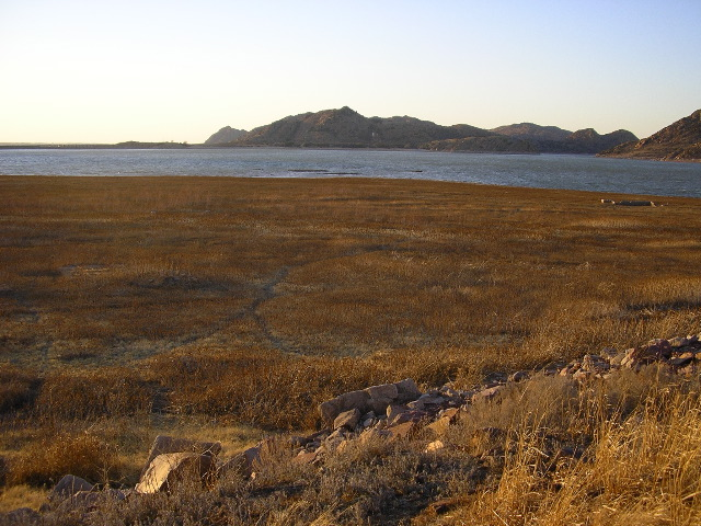 A view over Lake Altus-Lugert under very dry conditions. Some foundations from the former town of Lugert are visible on the lakebed